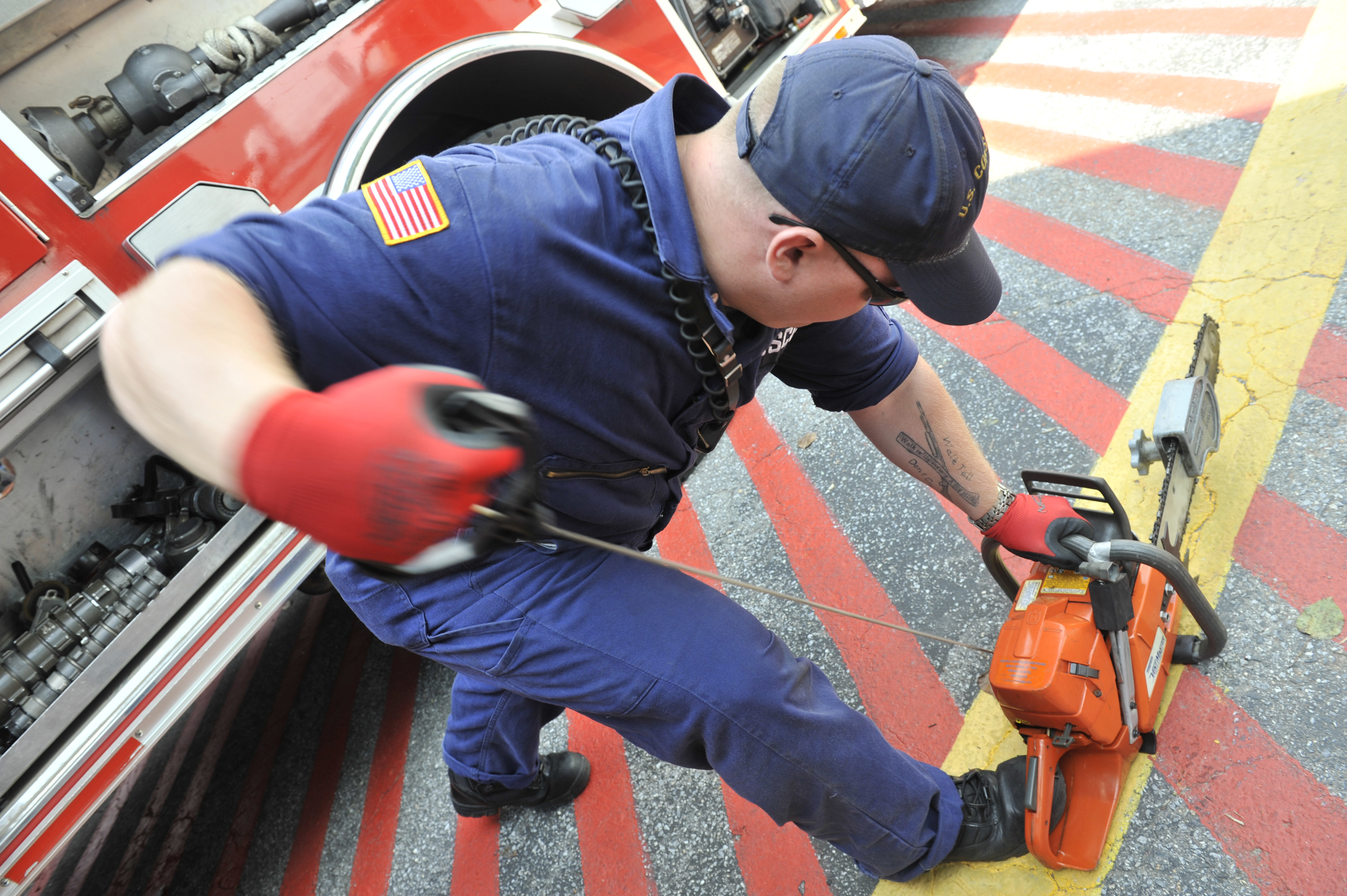 Petty Officer 3rd Class David Bruner, a member of the Coast Guard Fire Department at the Coast Guard Yard in Baltimore, starts up a rescue chainsaw, Thursday, Aug. 2, 2012, at the station. The chainsaw is used to cut away any obstruction the firefighters may encounter when performing a rescue. U.S. Coast Guard photo by Petty Officer 3rd Class Jonathan Lindberg